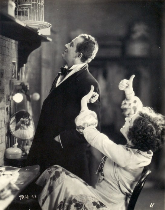 Eugene O'Brien & Gloria Swanson in Fine Manners - publicity still (cropped)